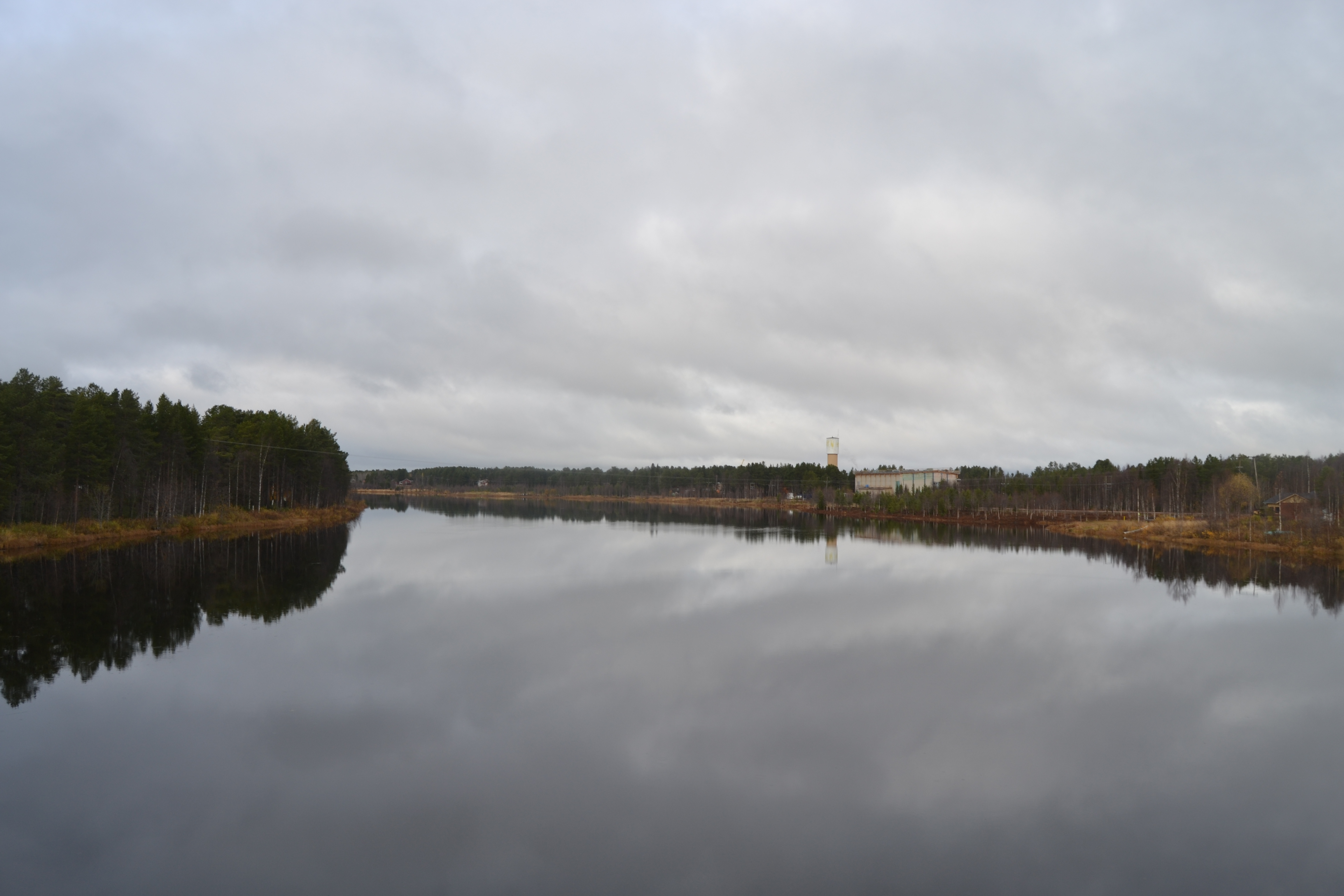 Jeesiöjoki river in Sodankylä, Finland